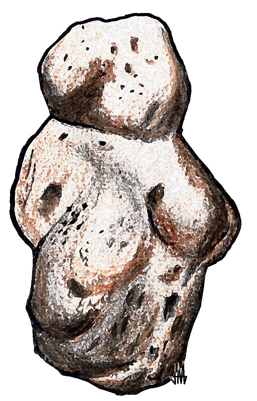 The Venus of Berekhat Ram is a proposed small venus figurine that was found on the Golan Heights. Because it was found between two layers of ash, it has been dated to at least 230,000 years before the present.